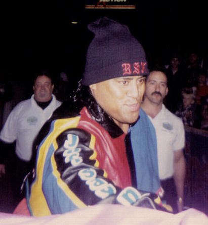 Fatu at a WWF event in 1995